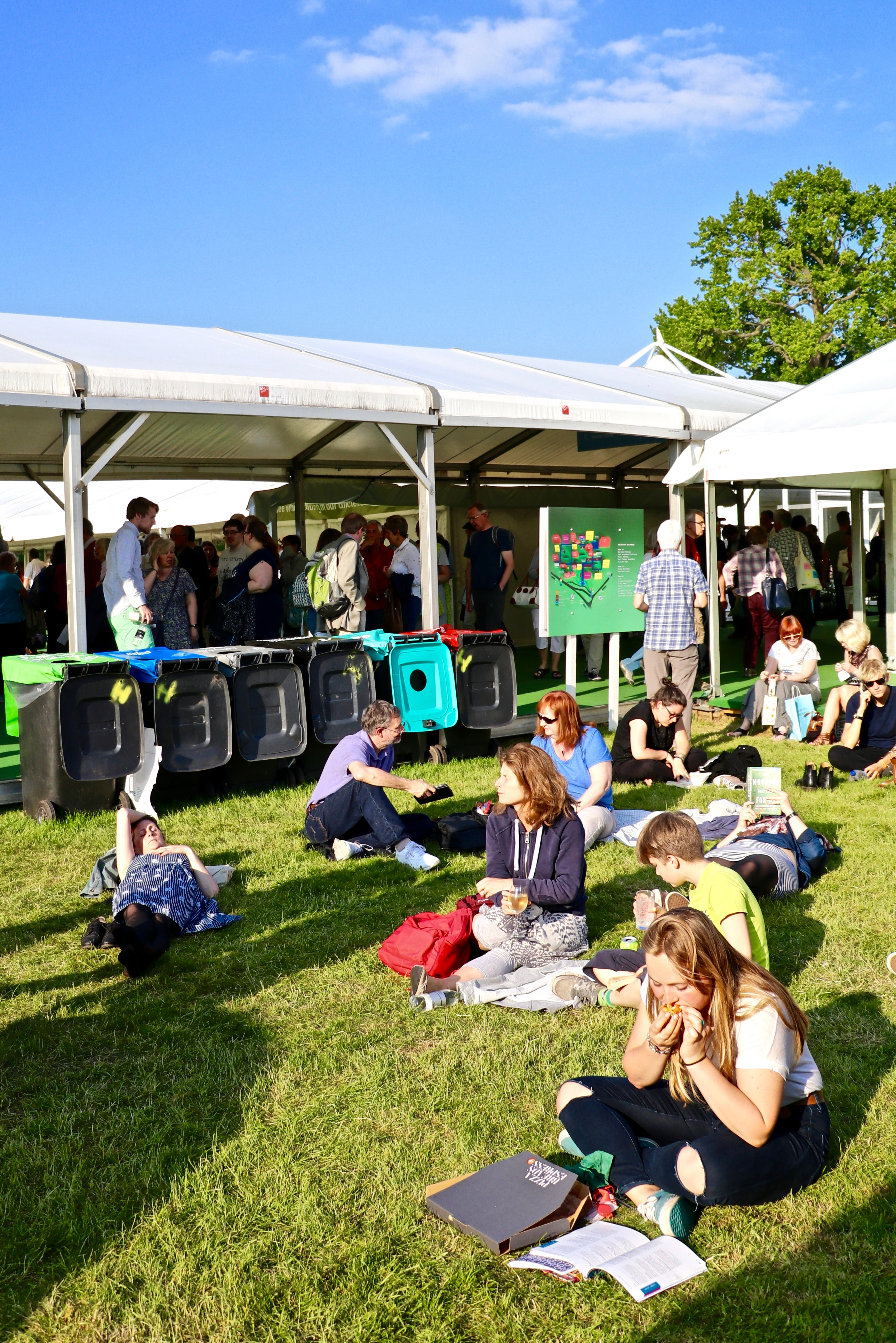 Hay Festival 2016 - Lawn